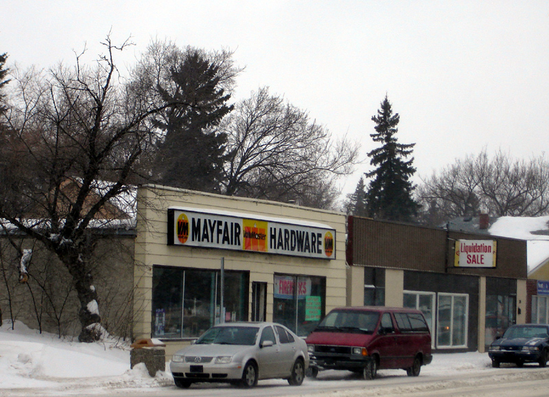 Mayfair Hardware Caswell Hill, Saskatoon, Saskatchewan, Core Neighbourhoods SDA, Saskatoon, Saskatchewan, Canada